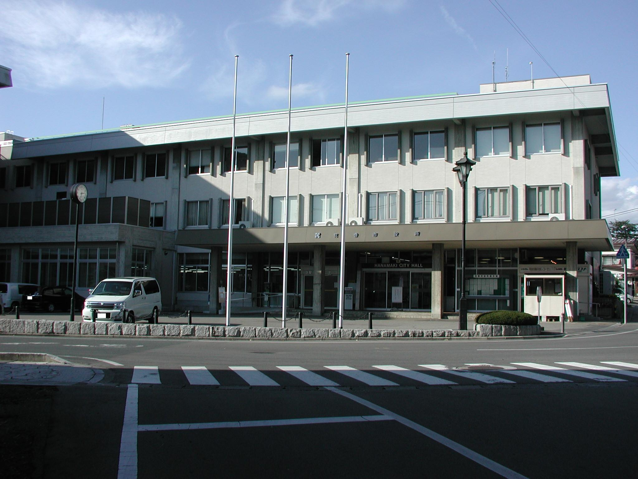 Hanamaki City Office